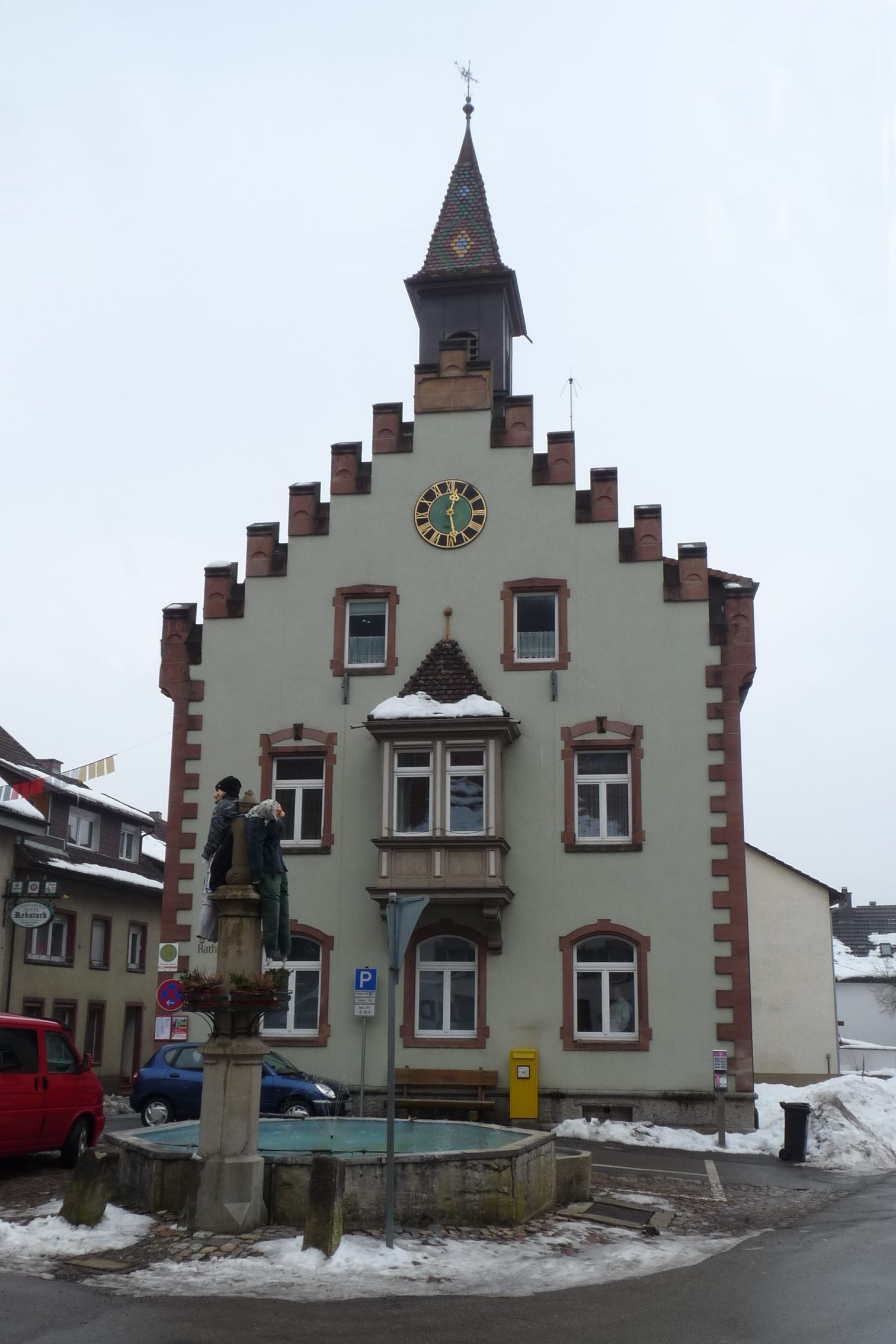 Town hall in Stühlingen, Germany